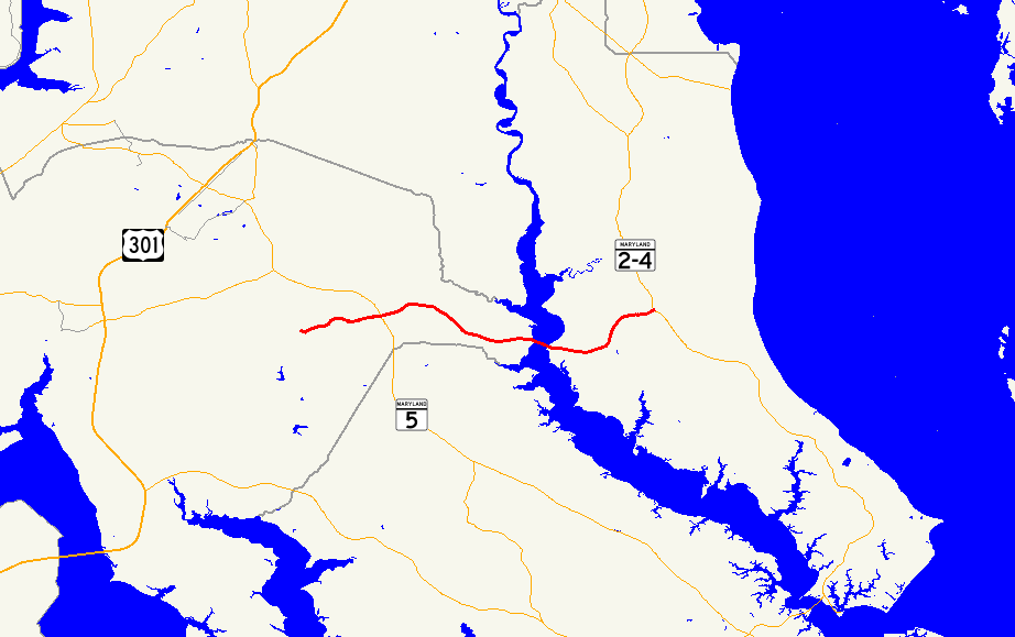 Map of Maryland Route 231